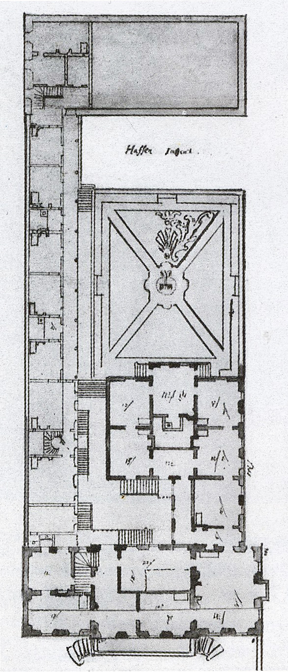 G. Mattarnovi. Disign of the ground floor of Peter I's Winter House in 1716